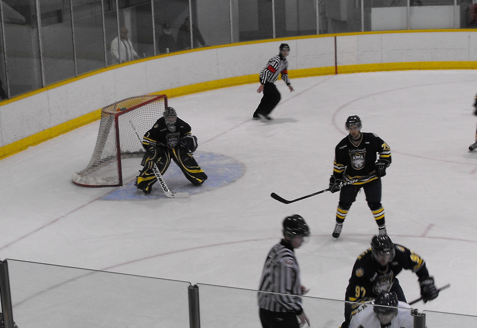 Photo taken by Devan Mighton of CIS men's hockey.